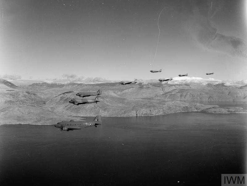 ROYAL AIR FORCE: ITALY, THE BALKANS AND SOUTH-EAST EUROPE, 1942-1945. (CNA 3336) A loose formation of Douglas Dakota Mark IIIs of No. 267 Squadron RAF based at Bari, Italy, flying along the Balkan coast. Copyright: � IWM. Original